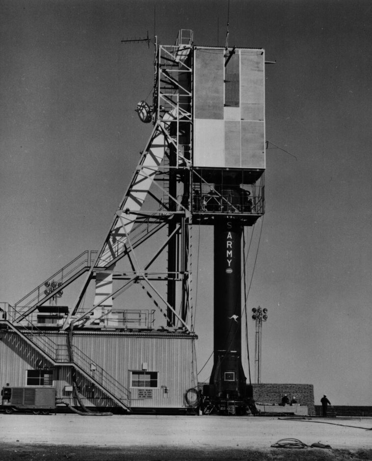 Redstone Sparta rocket beeing prepared for launch at Woomera